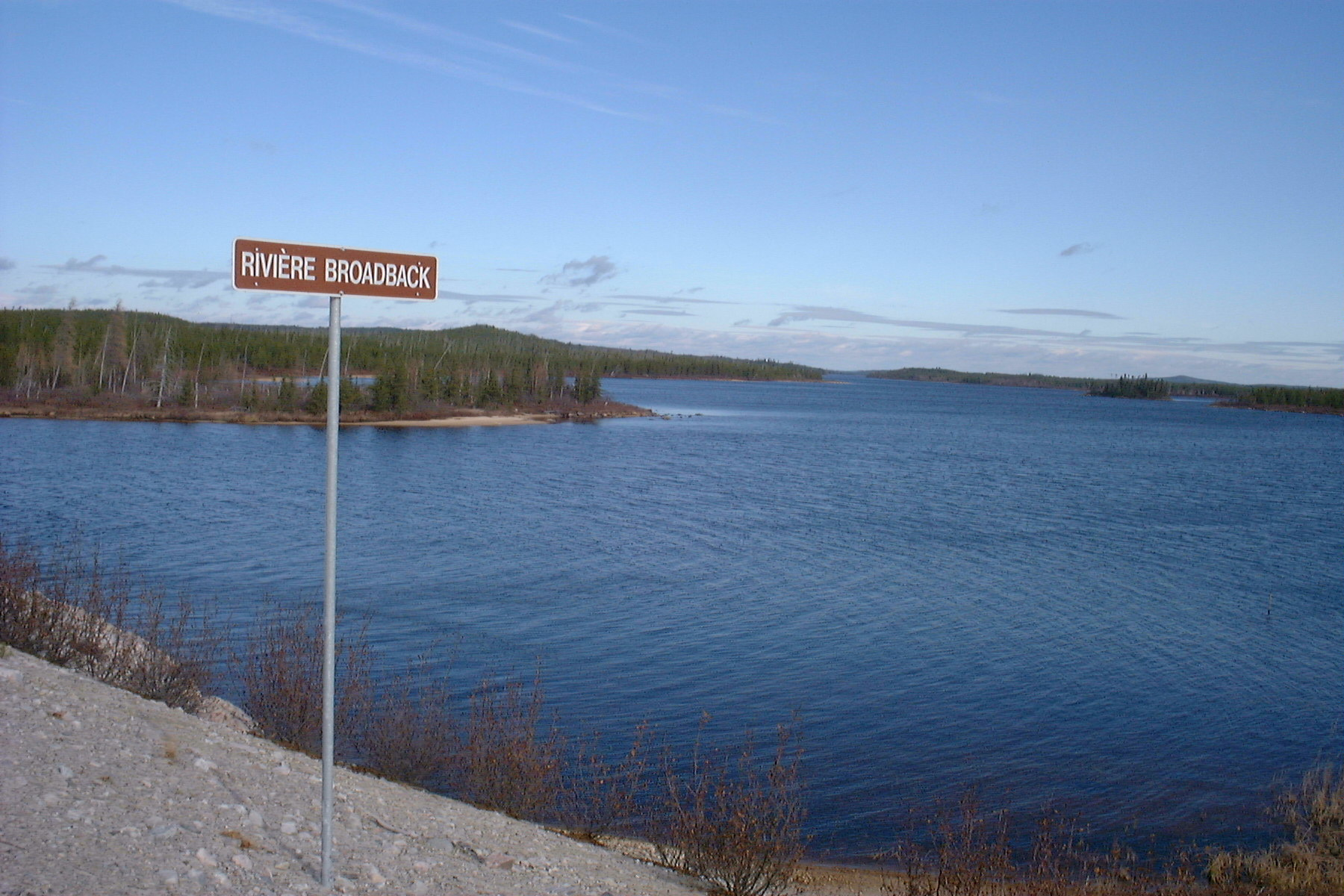 The Broadback river in northern Québec